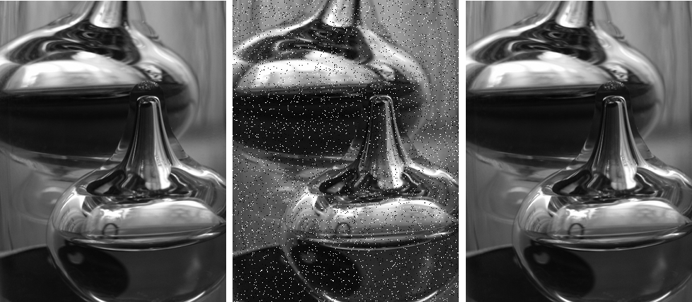 Author: Marko Meza